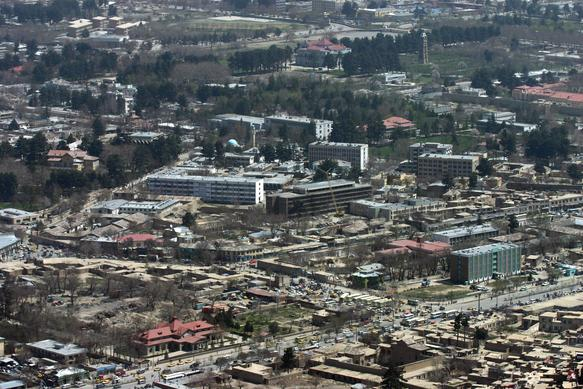 A view of the downtown area of Kabul in March 2004.